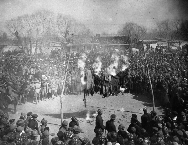 Photograph of a veil-burning ceremony during the Hujum era in Uzbekistan (1920's) on International Women's Day.